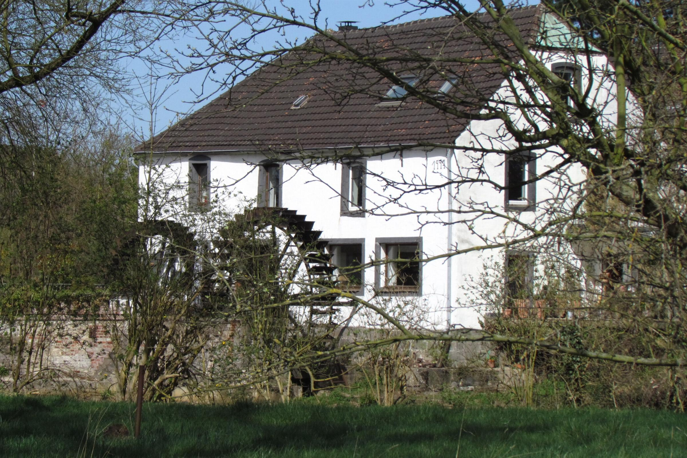 This is a photograph of an architectural monument.